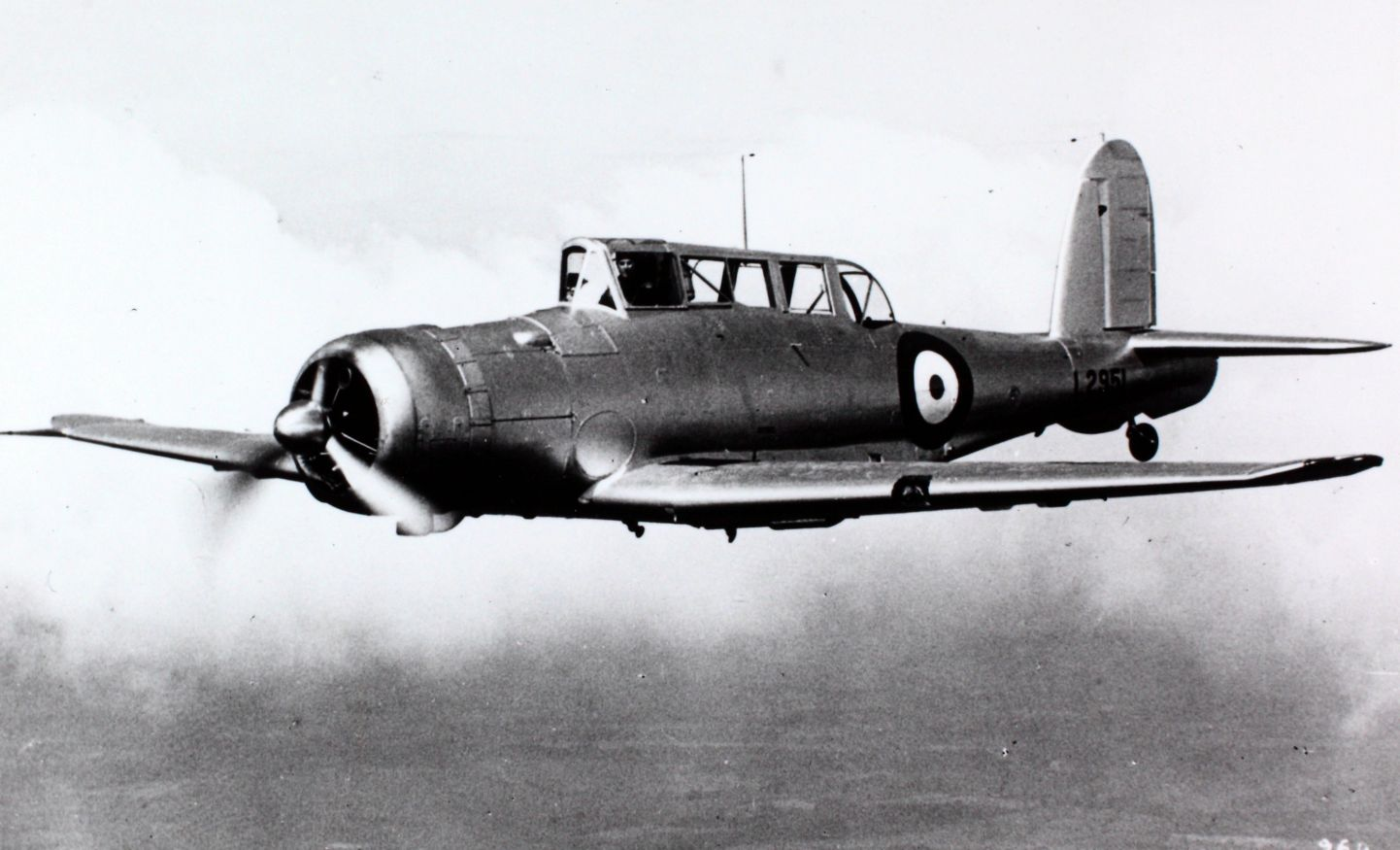 Image from the Charles Daniels Photo Collection album "British Aircraft." SOURCE INSTITUTION: San Diego Air and Space Museum Archive